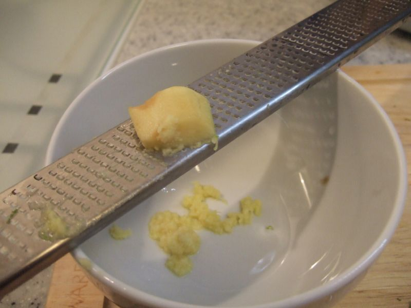 A Microplane brand surform being used to grate fresh ginger